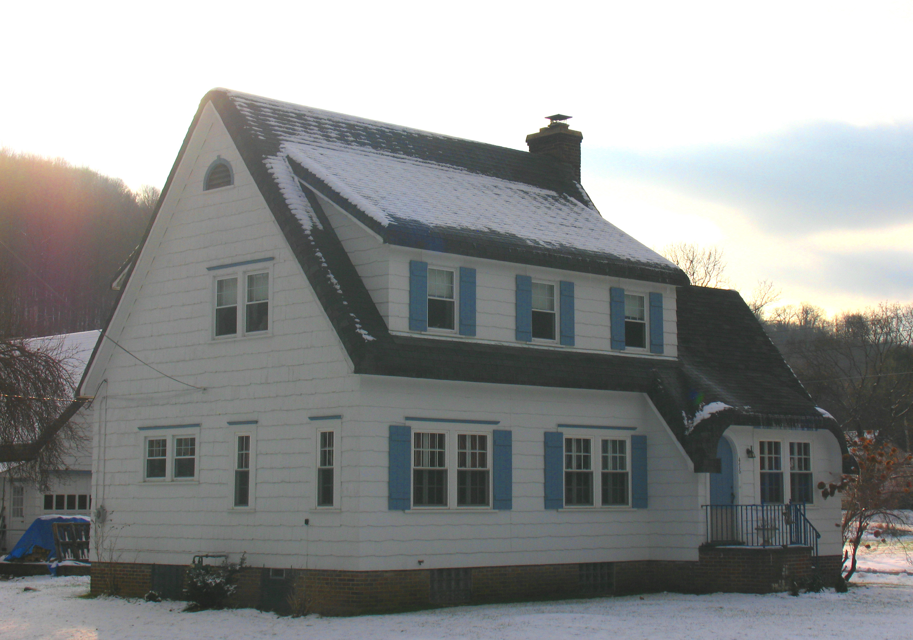 A home in Derrick City, Pennsylvania a village in Foster Township, McKean County, Pennsylvania.